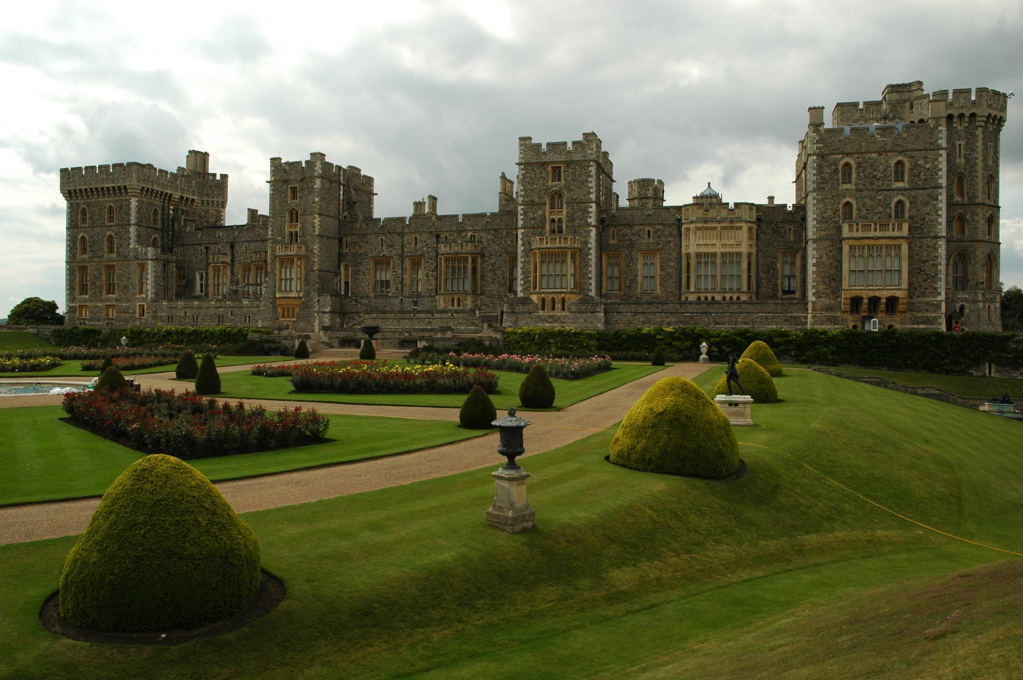 Windsor Castle, east side gardens and facade.